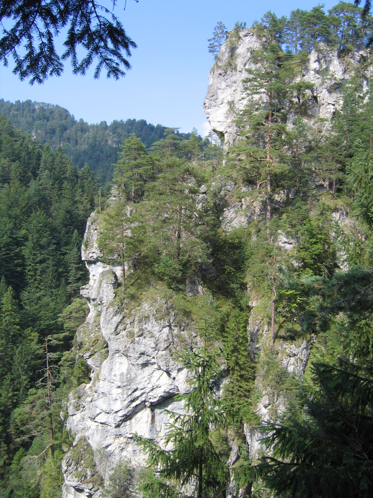 Malá Fatra, Tiesňavy - Dolné diery, Slovakia